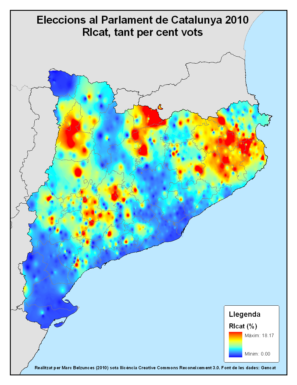 Distribution of votes for Reagrupament in the elections to Parliament of Catalonia 2010.